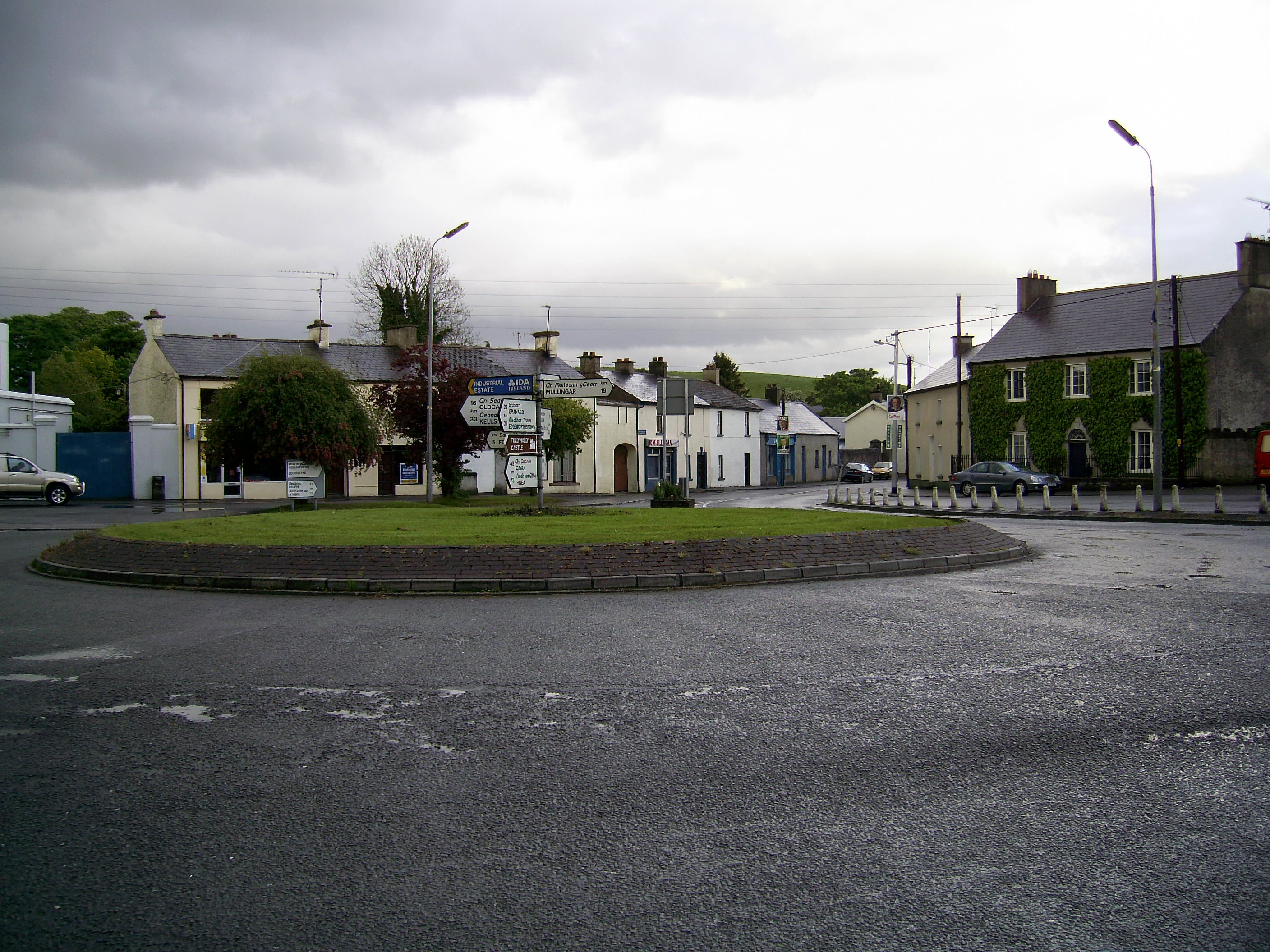 Rond-point Castlepollard